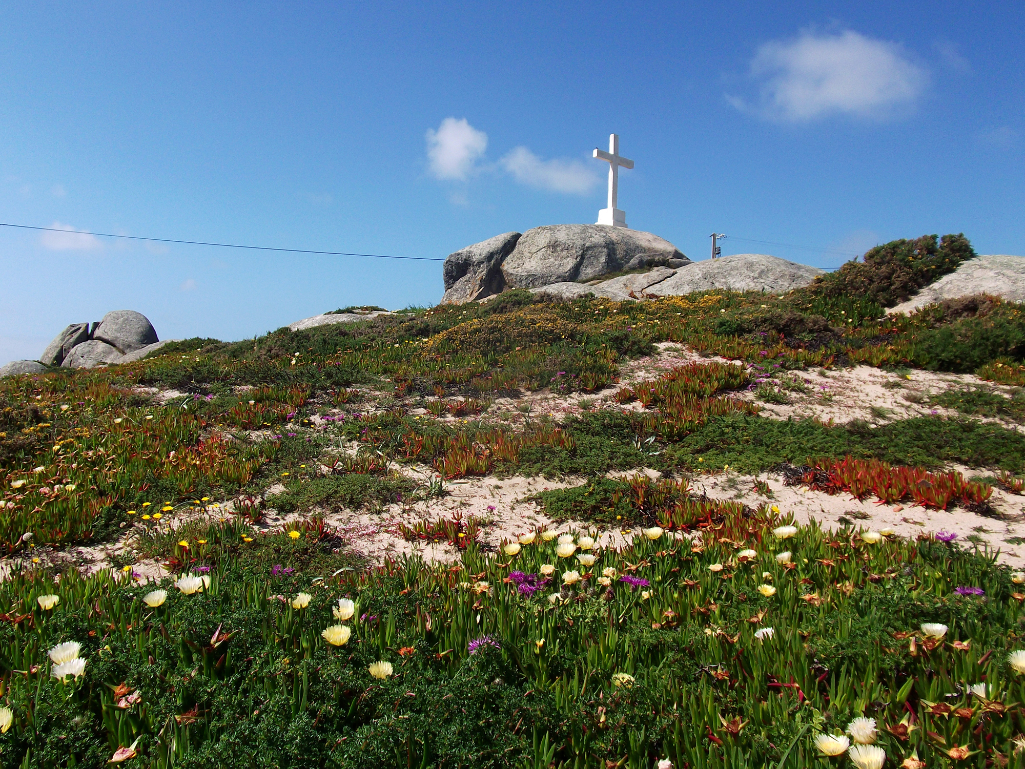 Santo André Rock - ancient religious and archaeological site in Póvoa de Varzim, Portugal